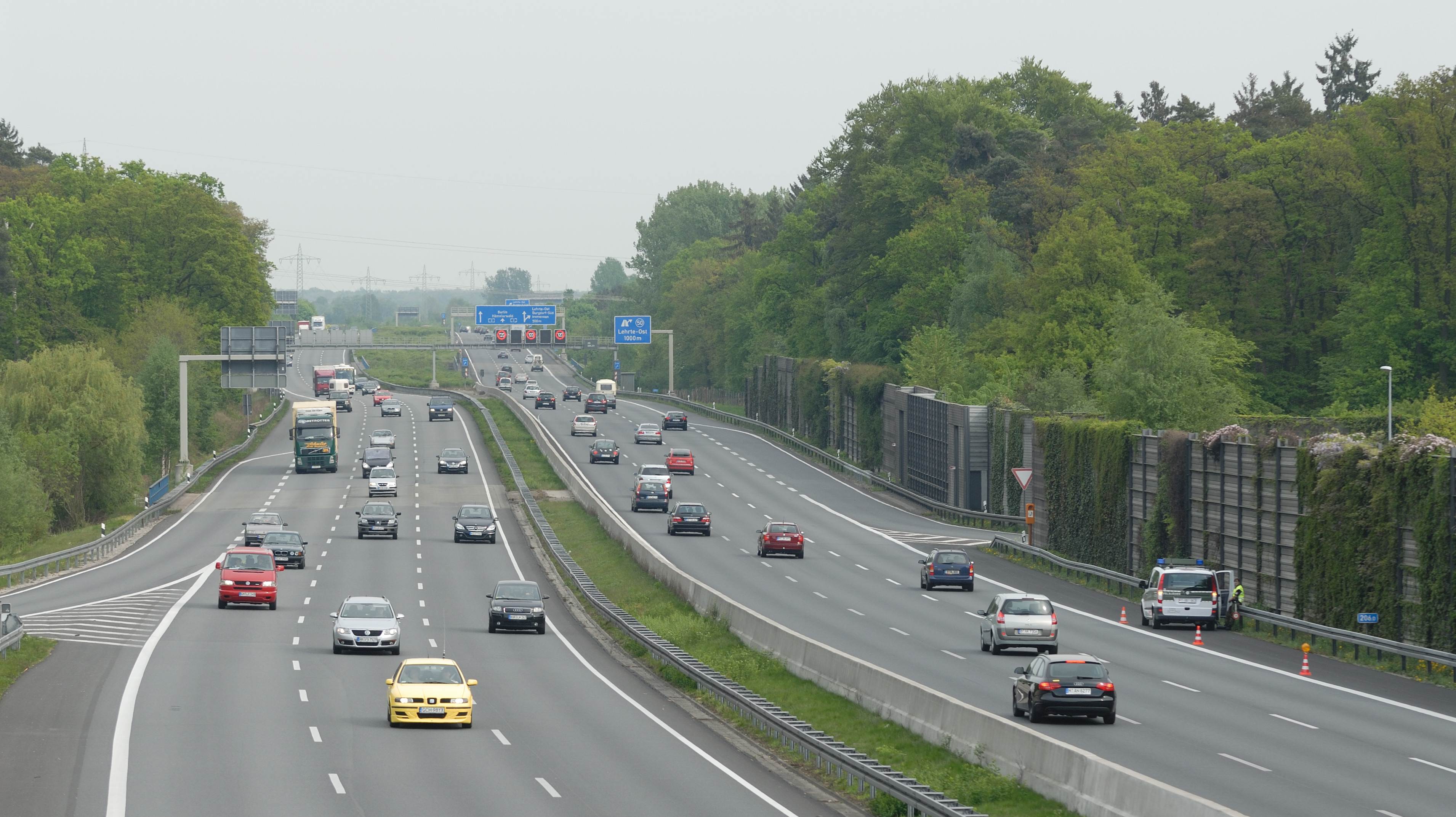 View of A 2 highway from a bridge at service area Lehrter See looking east.